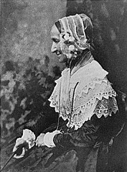 Title Portrait photograph of Mrs. Rigby (Anne Palgrave) Contributor Names Genthe, Arnold, 1869-1942, photographer Hill, David Octavius, 1802-1870, photographer Adamson, Robert, 1821-1848, photographer Created / Published between 1896 and 1942; from a print. Format Headings Calotypes--Reproductions. Lantern slides. Portrait photographs--Reproductions. Notes - Title devised. Lantern slide reproduction by Arnold Genthe of a calotype by David Octavius Hill and Robert Adamson. - Purchase; Genthe Estate; 1942 or 1943. Medium 1 slide : lantern ; 4 x 5 in. or smaller. Call Number/Physical Location LC-G4085- 0437 [P&P]